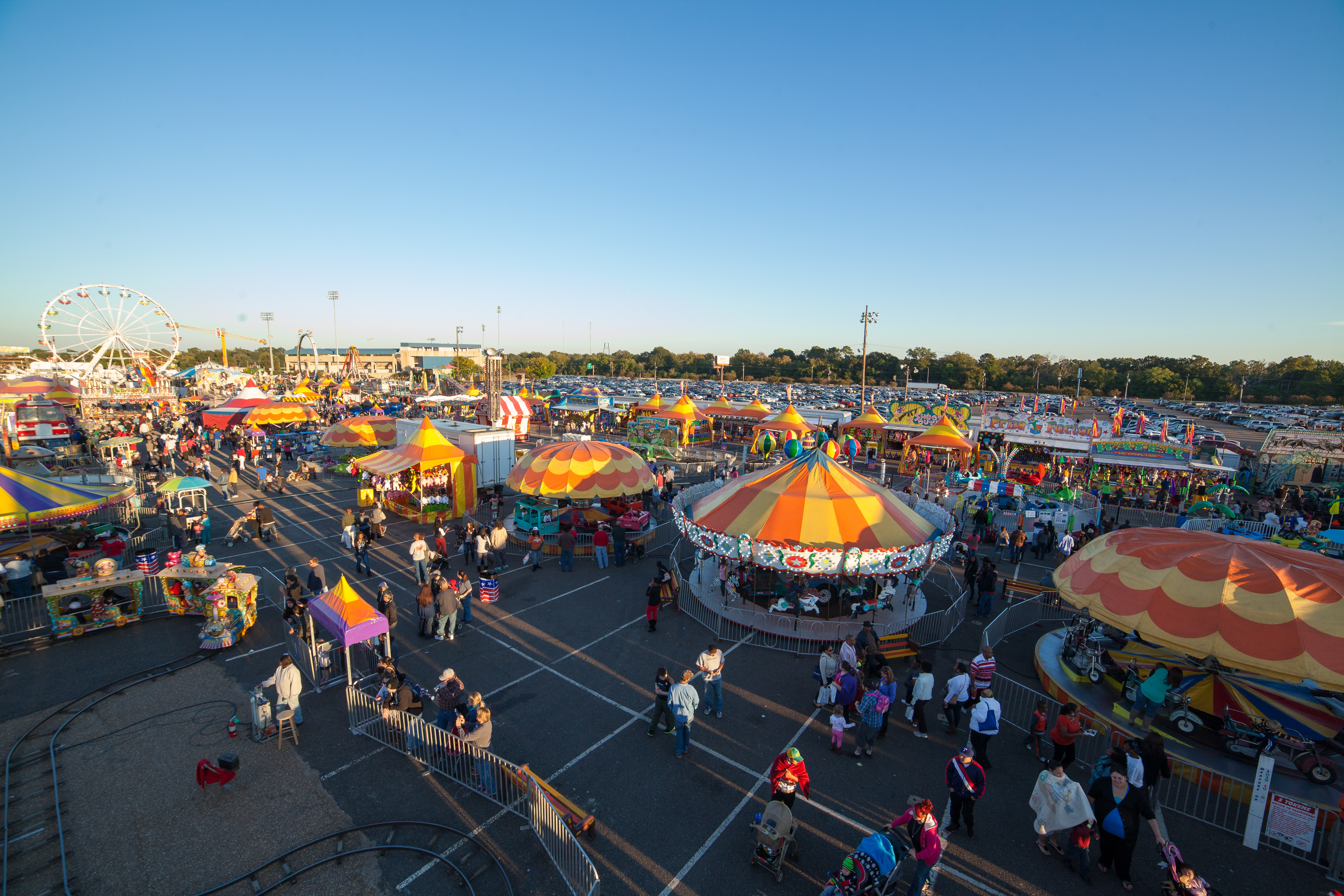 State Fair of Louisiana, in Shreveport, Louisiana, United States.